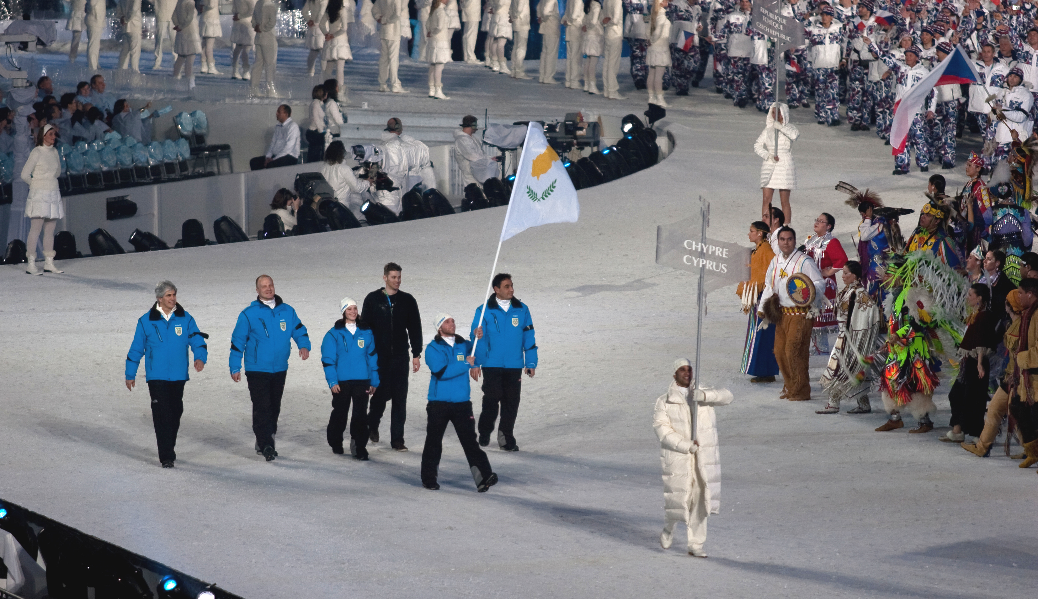 The athletes from Cyprus entering the stadium at the opening ceremonies of the 2010 Winter Olympics